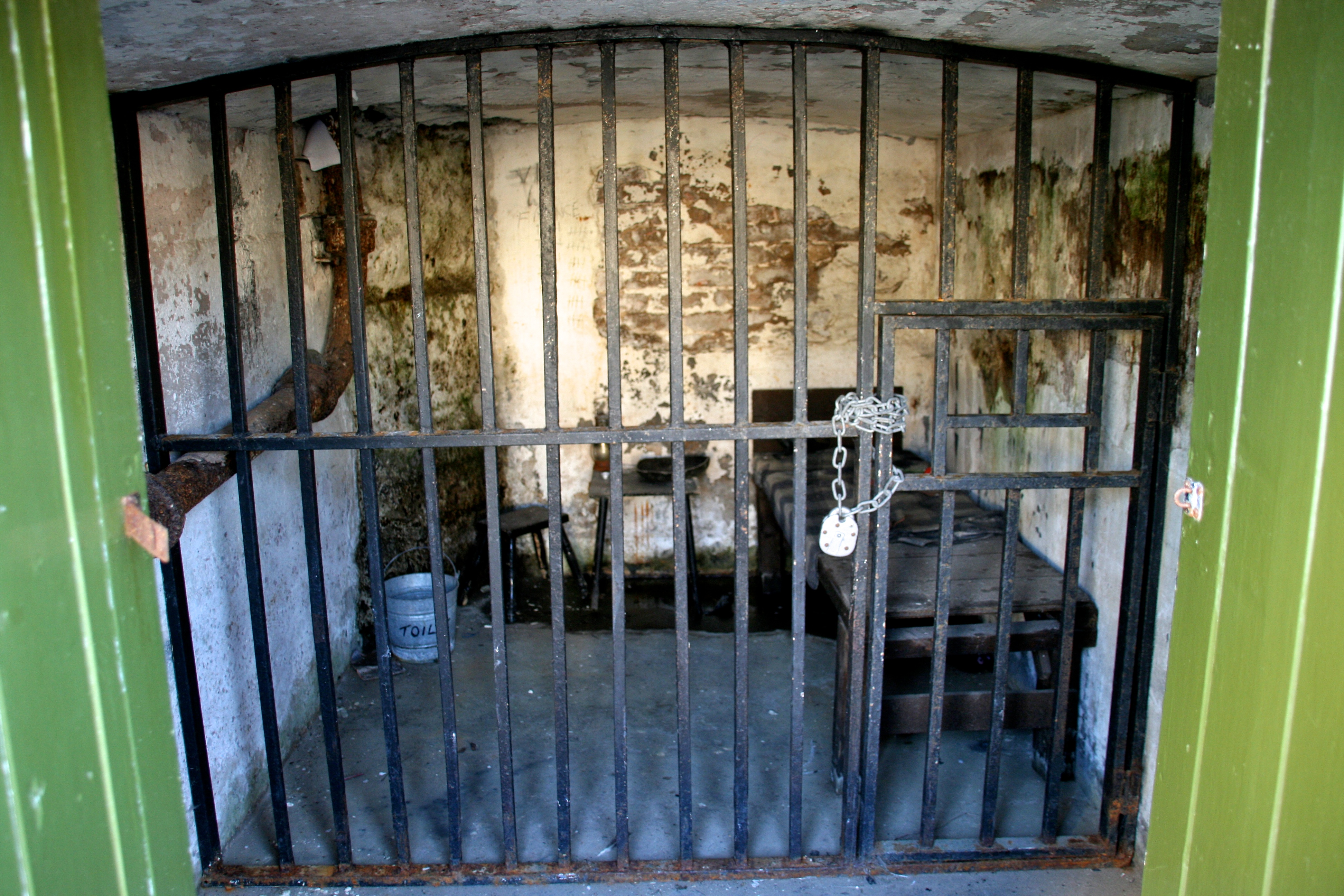 Fort Perch Rock.